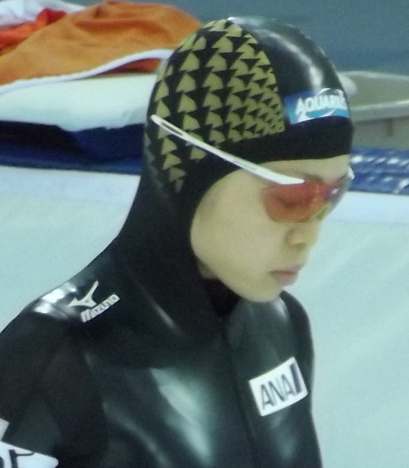 2013 World Single Distance Speed Skating Championships